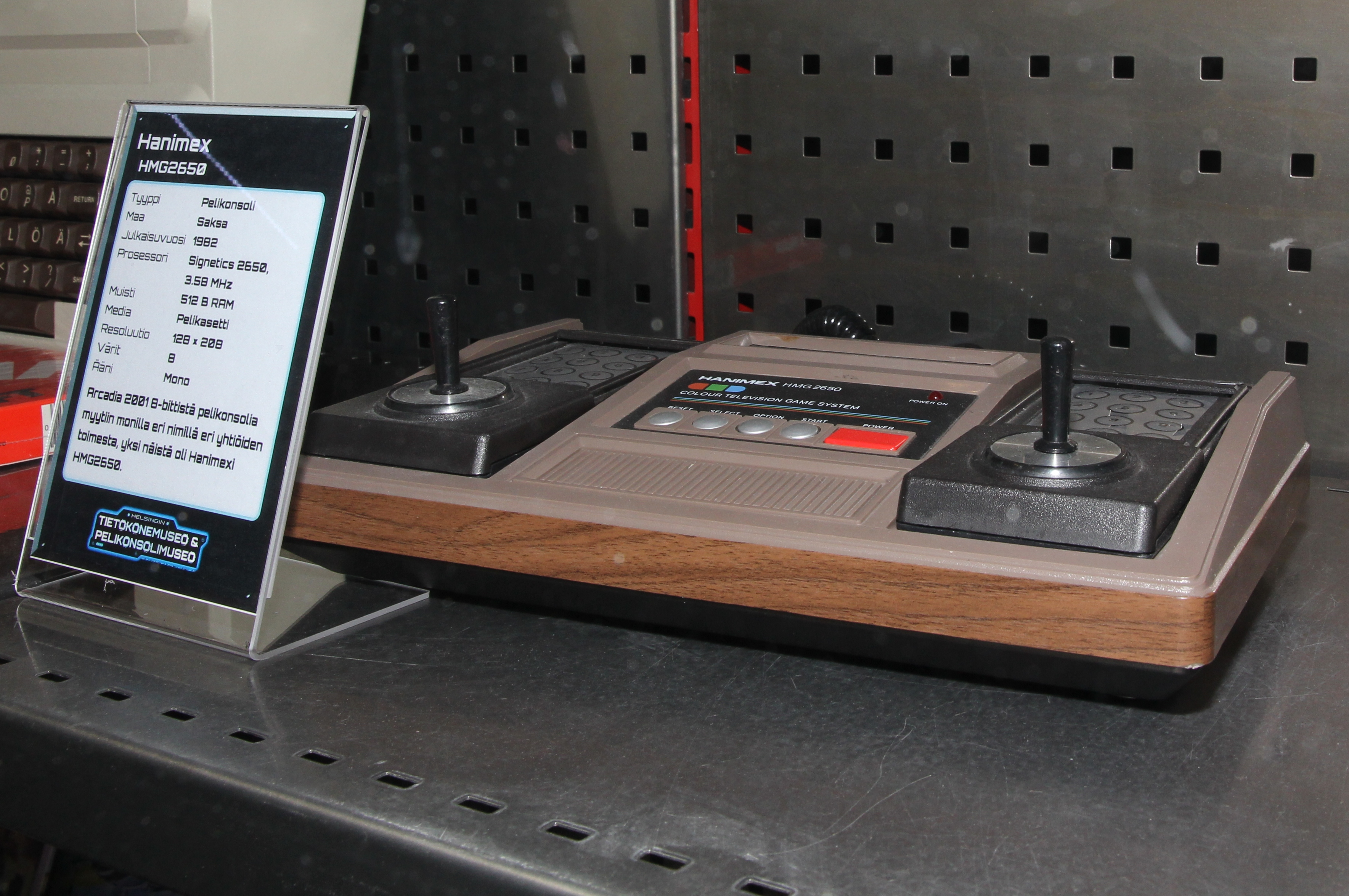 Hanimex HMG-2650 game console (Arcadia 2001 clone) in Helsinki Computer and game console museum.